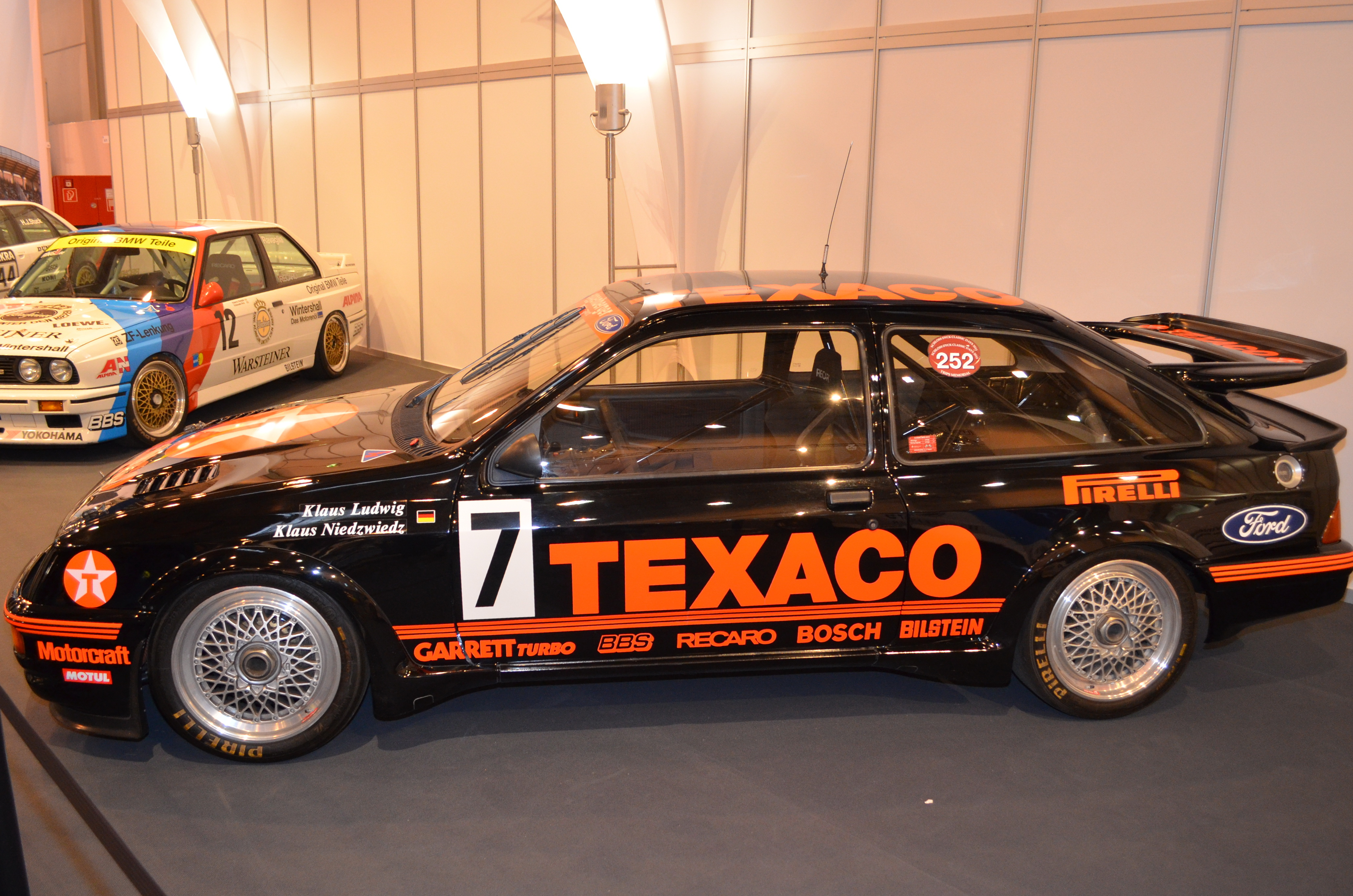 Motorshow_Essen_2013-11-30 10-56-58